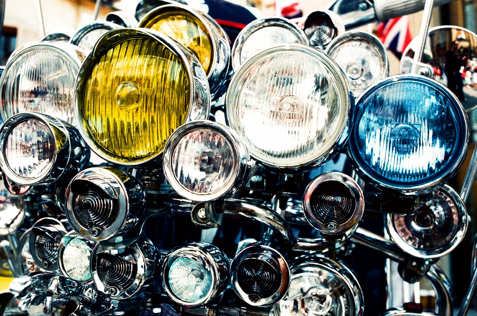 Headlight overkill on an Italian scooter.